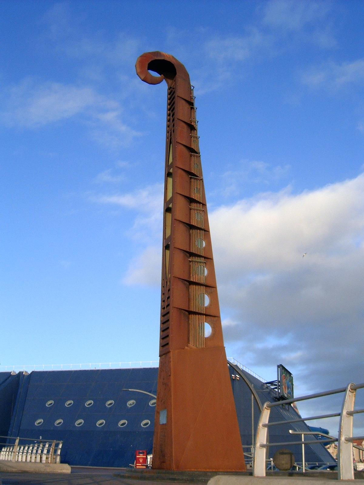 Side view of the Blackpool High Tide Organ, a site-specific tide and wind musical sculpture on the promenade in Blackpool, England.